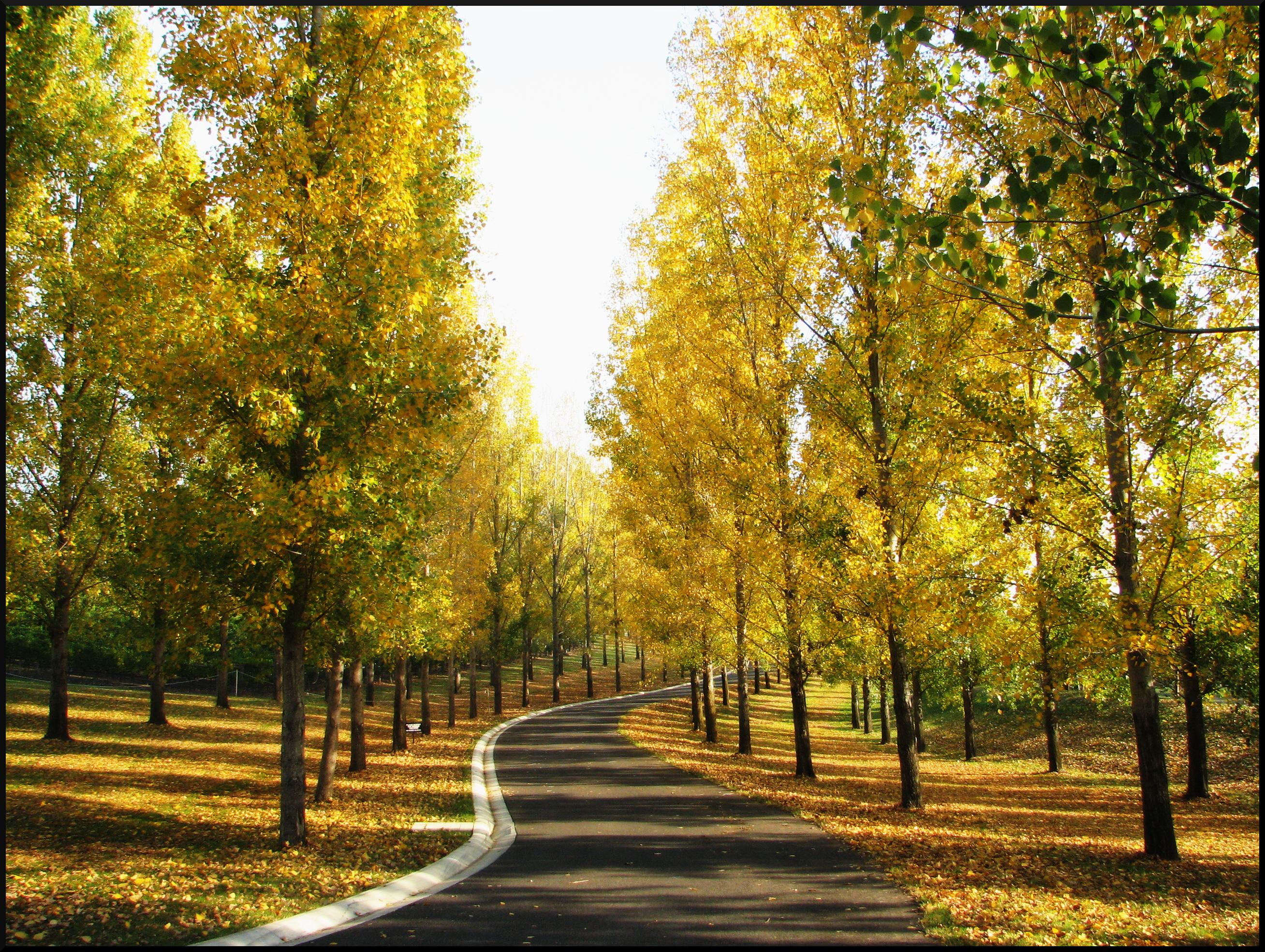 TarraWarra Estate in Yarra Valley (Post-Processed) Original Photo Here